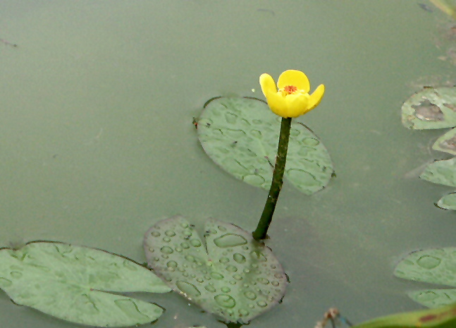 Yellow Water Lily Nuphar pumila (syn.: ，台灣萍蓬草 Nuphar shimadai Hayata) ， Plants of Taiwan.